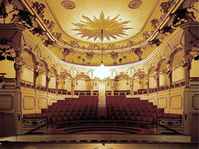 Theater in New Palace, Potsdam, Germany